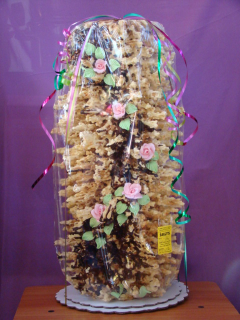 Shakotis is traditional Lithuanian cake. This one is adorned for wedding banquet.